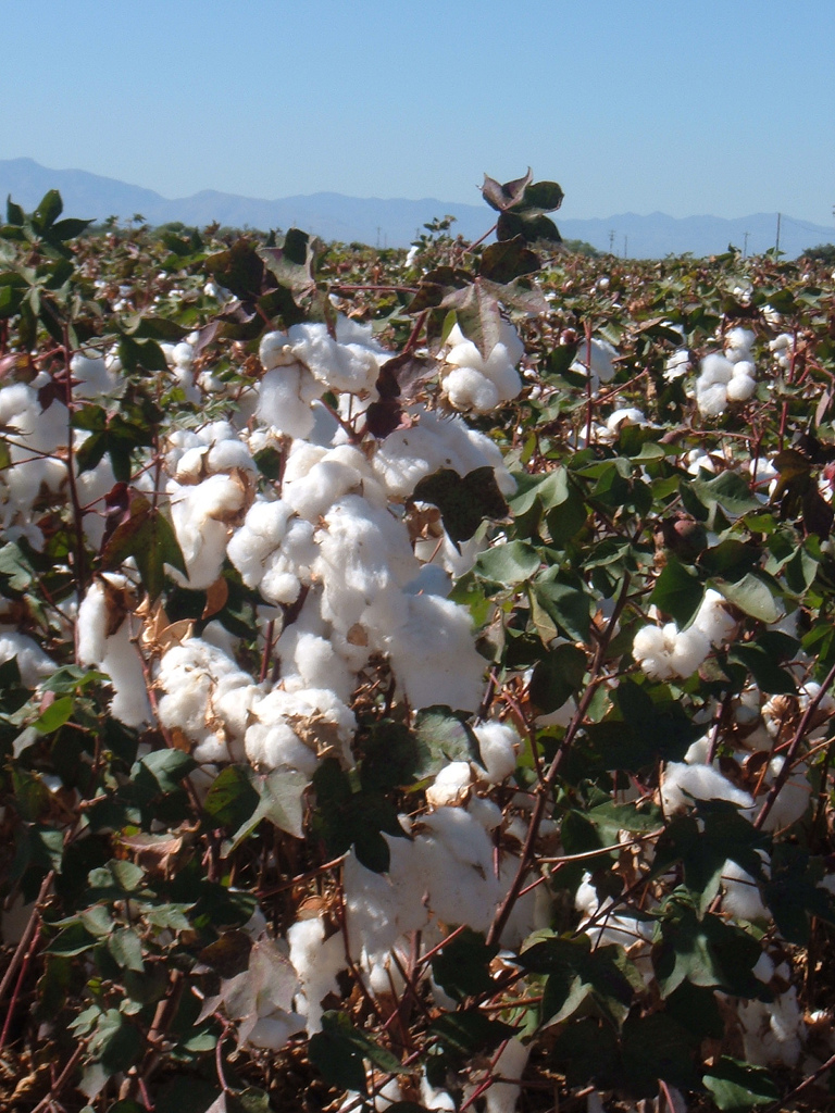 Cotton field outside Safford, Arizona, USA